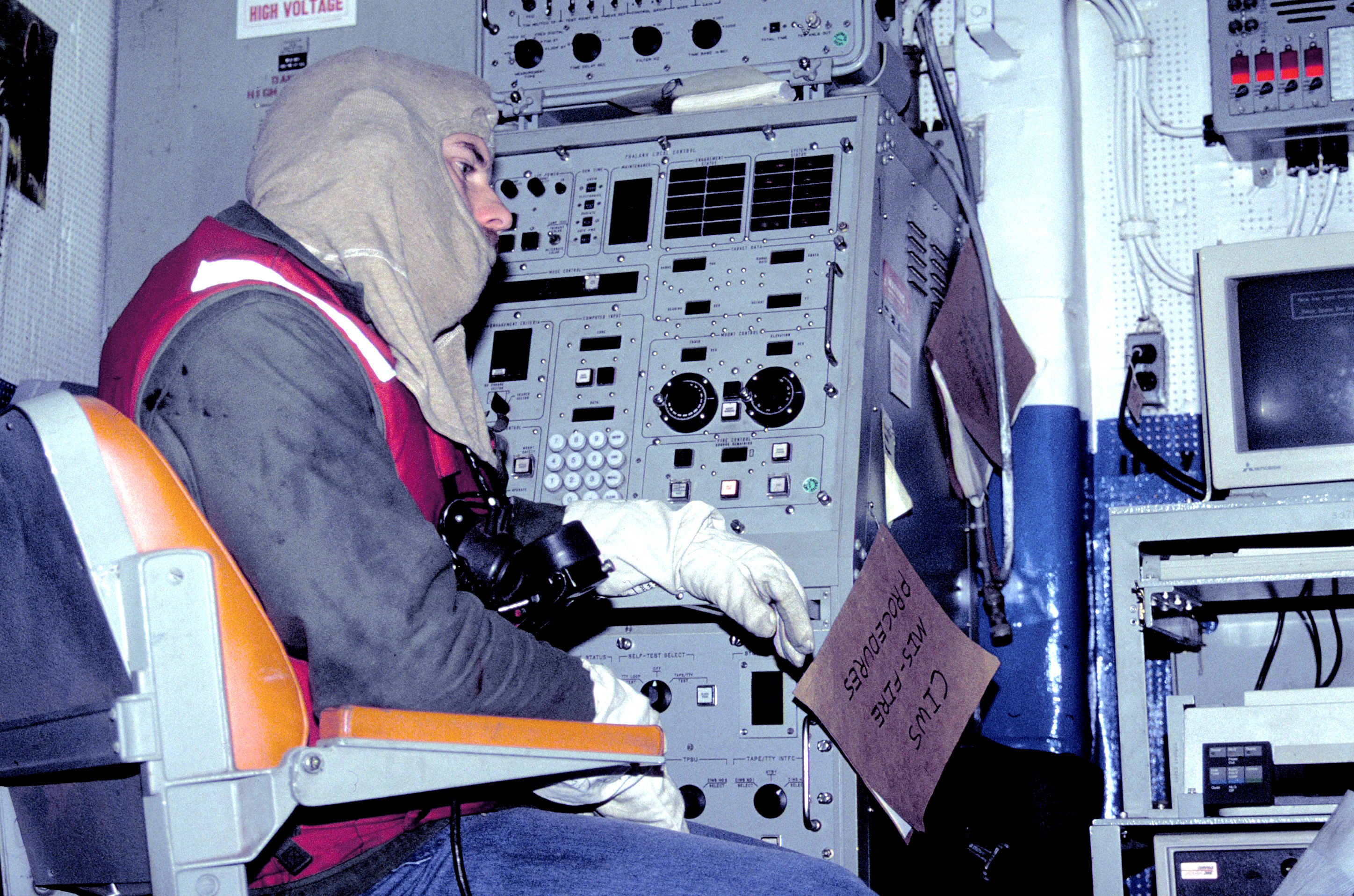 A crew member monitors computerized controls of the Phalanx close-in weapons system (CIWS) during a general quarters drill aboard the aircraft carrier USS JOHN F. KENNEDY (CV-67).Location: NAVAL STATION, NORFOLK, VIRGINIA (VA) UNITED STATES OF AMERICA (USA)